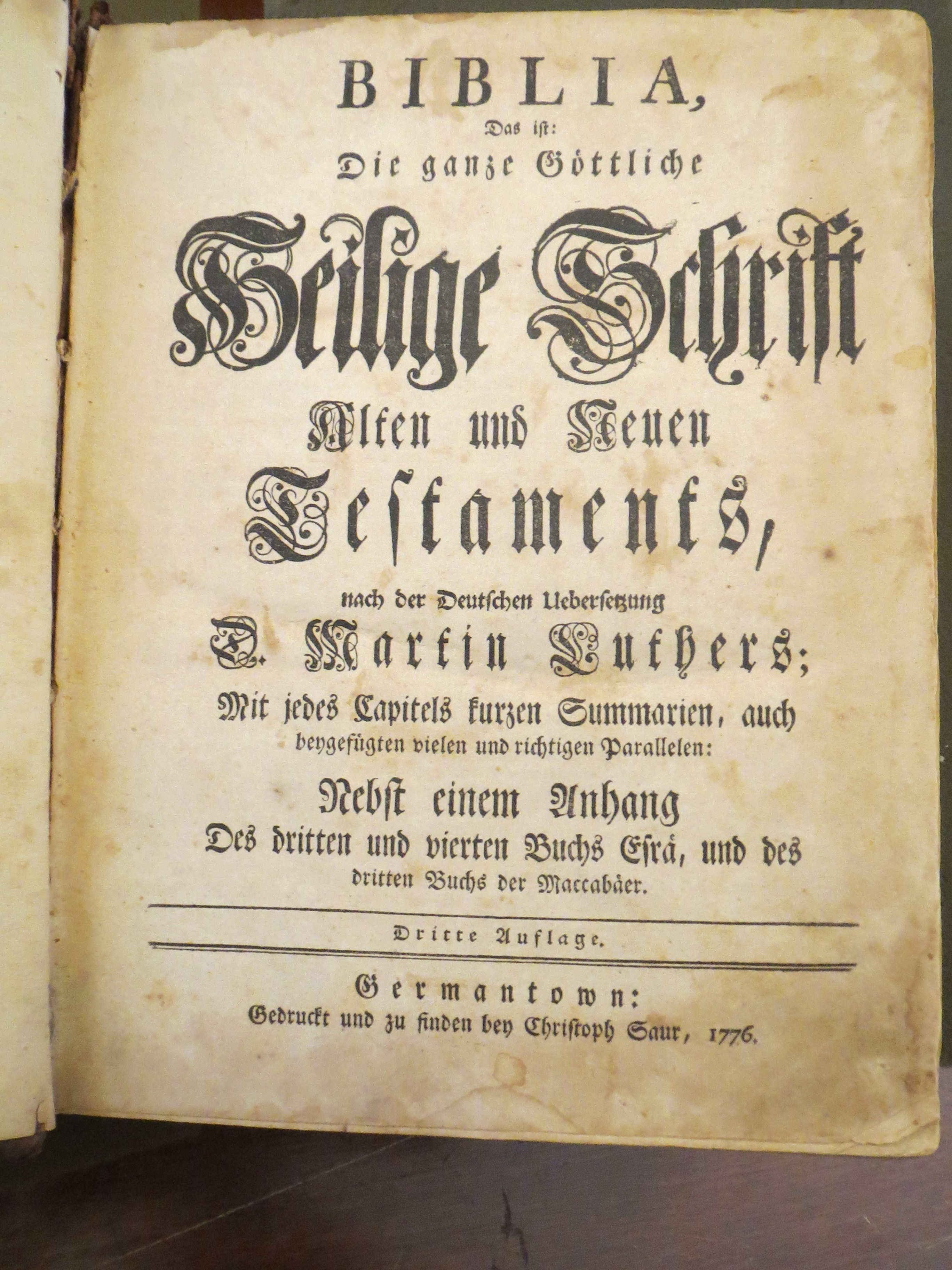 Sauer Bible 3rd edition, Hofmann Collection, JHU